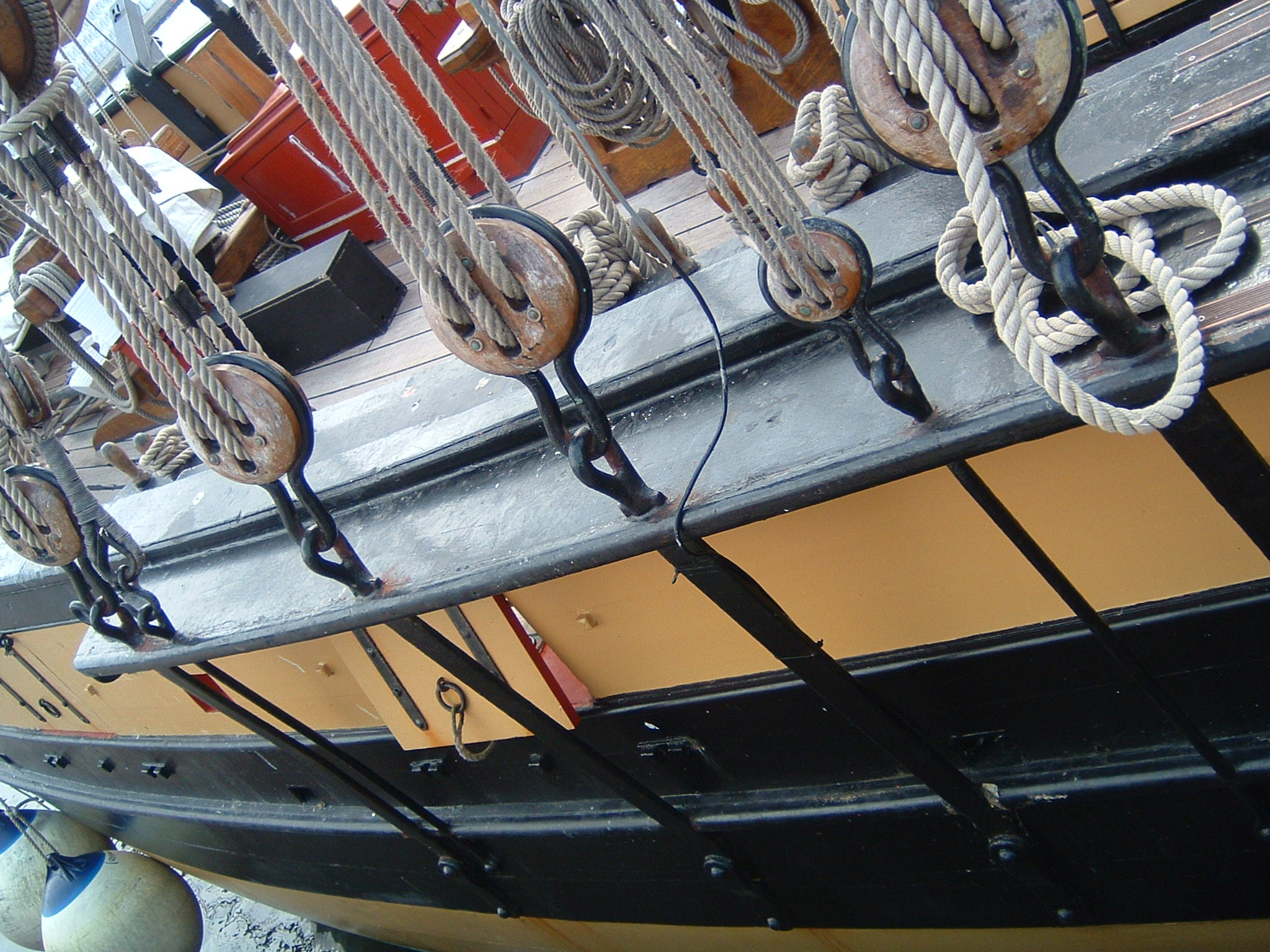 Deadeyes.